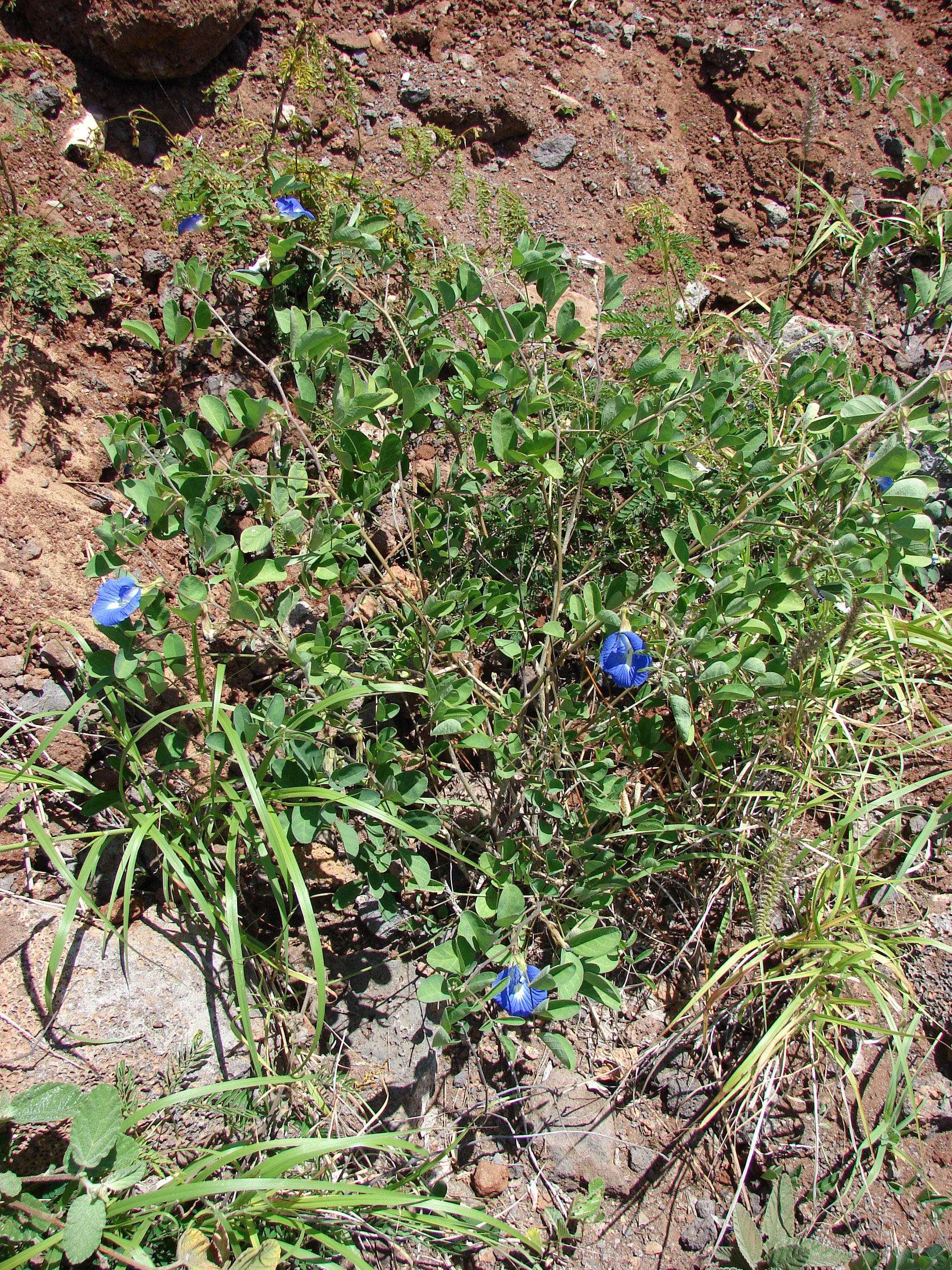 Clitoria ternatea (habit). Location: Lanai, Hulopoe